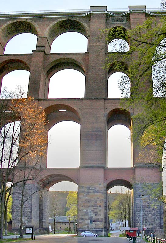 This image shows a size comparison between the Göltzschtal bridge and a car.